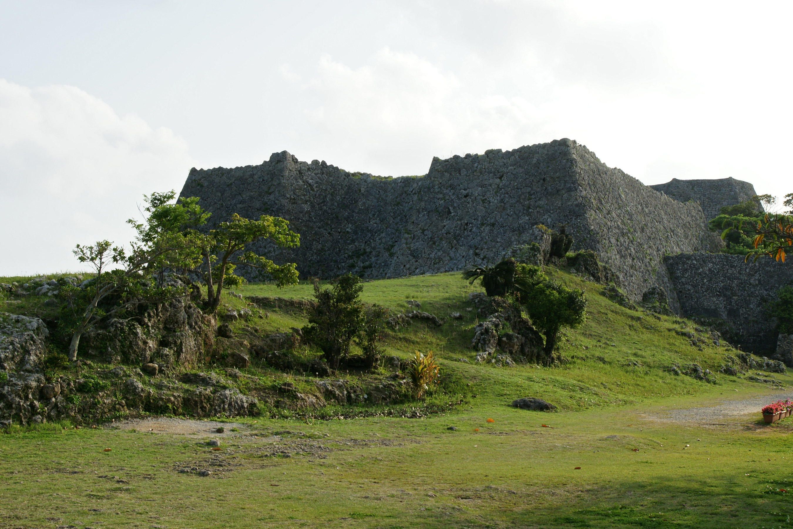 Nakagusuku Castle in Kitanakagusuku and Nakagusuku, Okinawa prefecture, Japan.